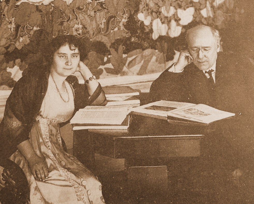 Feodor Sologub & Cebotarevskaia